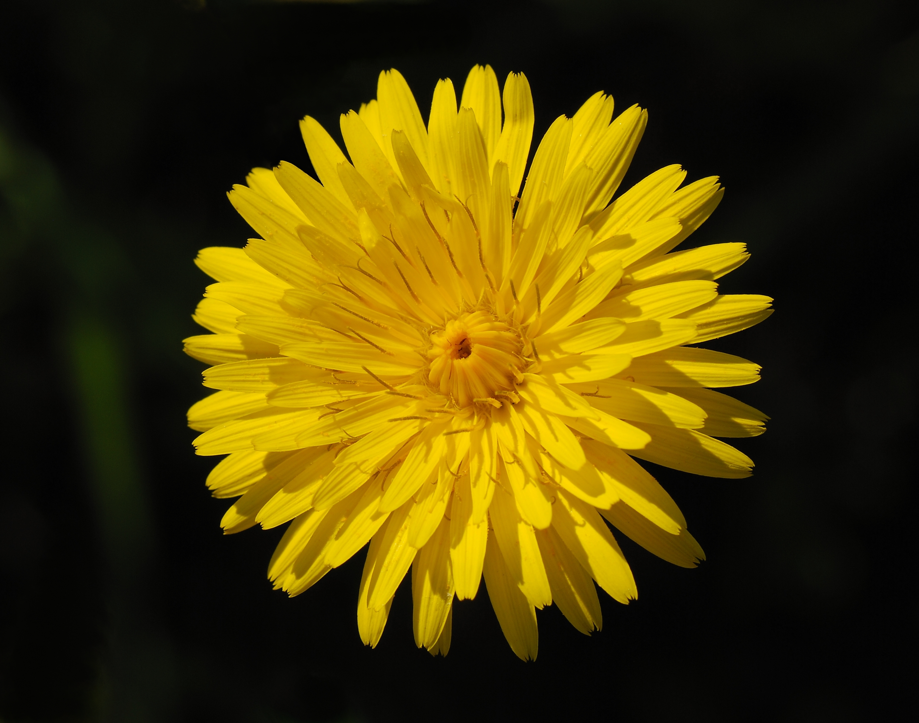 Flower head of a Commons Hawkweed (Hieracium lachenalii). It is one of the wild-growing vascular plants very common throughout Northern Europe and and North America usually surrounding cemeteries, courtyards and disintegrating castles.